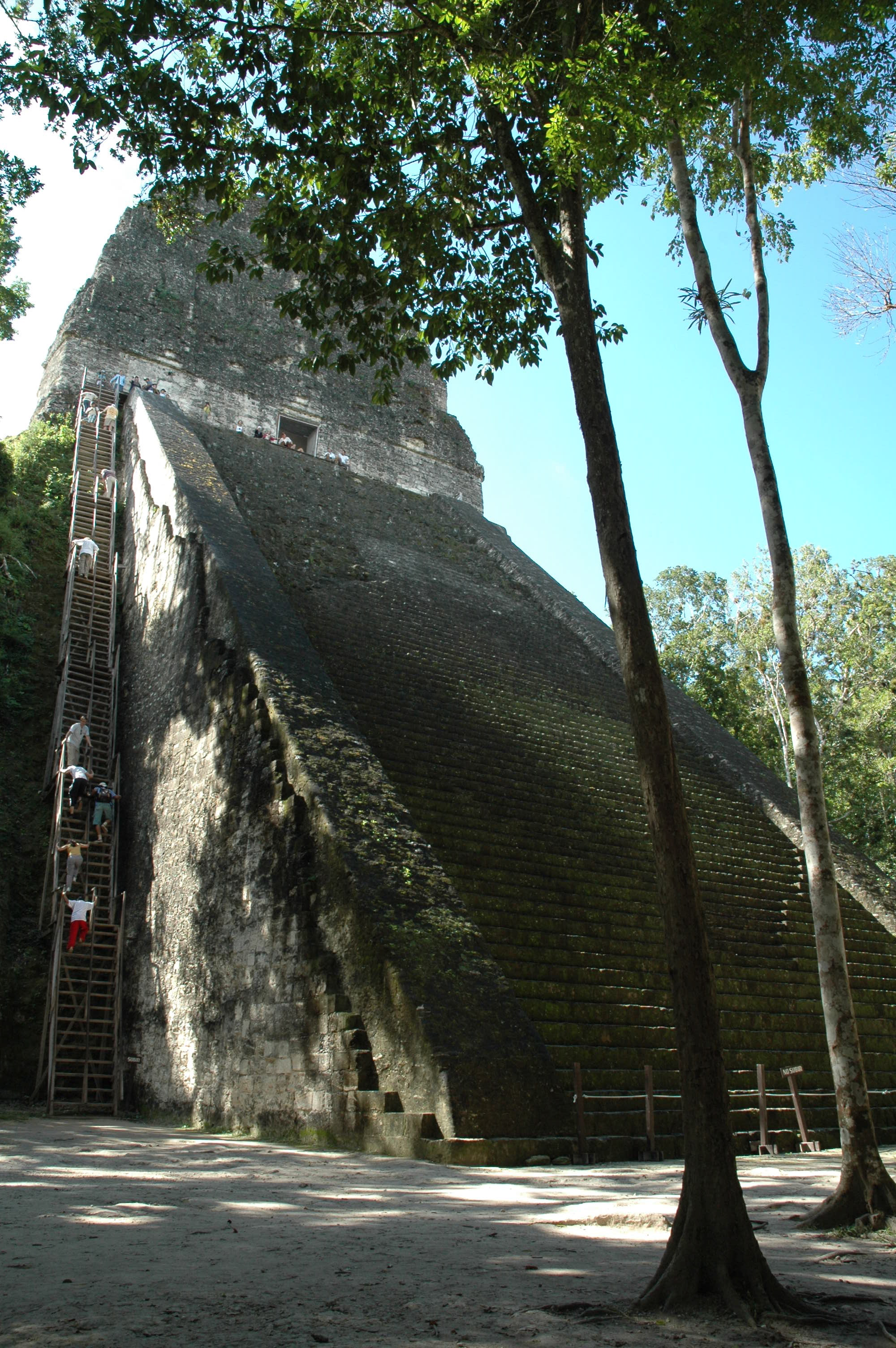 One can climb to the top using the wooden stairs on the side.